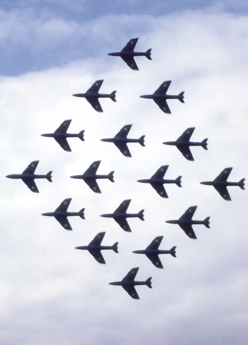 Sixteen Hunters of the Black Arrows perform aerobatics at the Farnborough Air Show, England. (No, I did not paste the same Hunter pic down sixteen times, that is how accurately they flew!). Taken by Adrian Pingstone, around 1960, and released to the public domain.